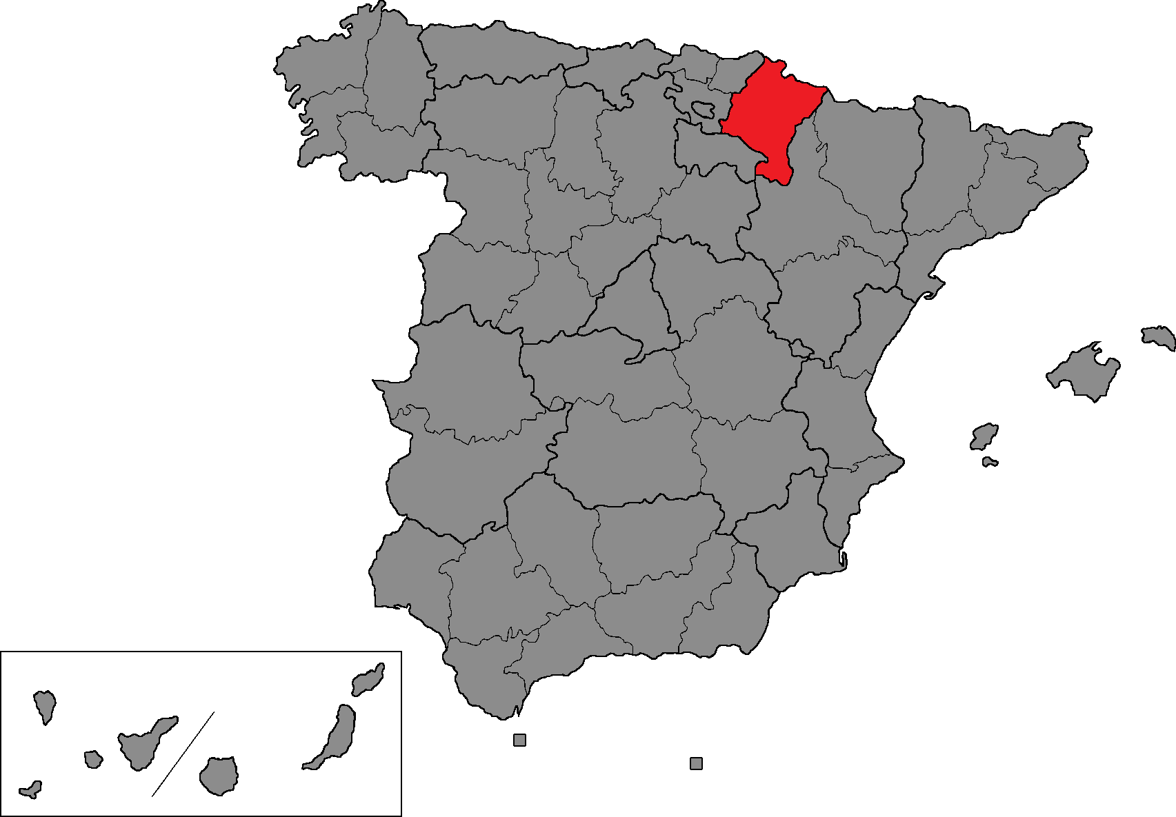 Spanish Congress of Deputies district of Navarre.